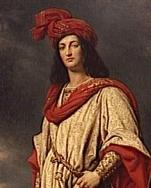 Portrait of Louis I, Duke of Anjou